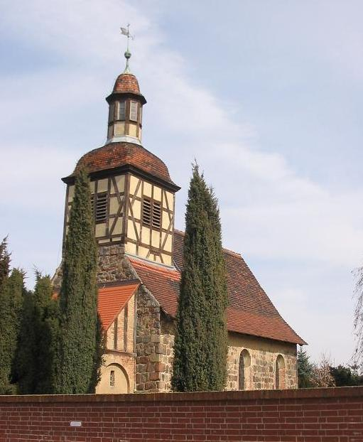 Church of Neschholz, village nearby the „Belziger Landschaftswiesen“ („territory grassland near the town Belzig“) in Brandenburg